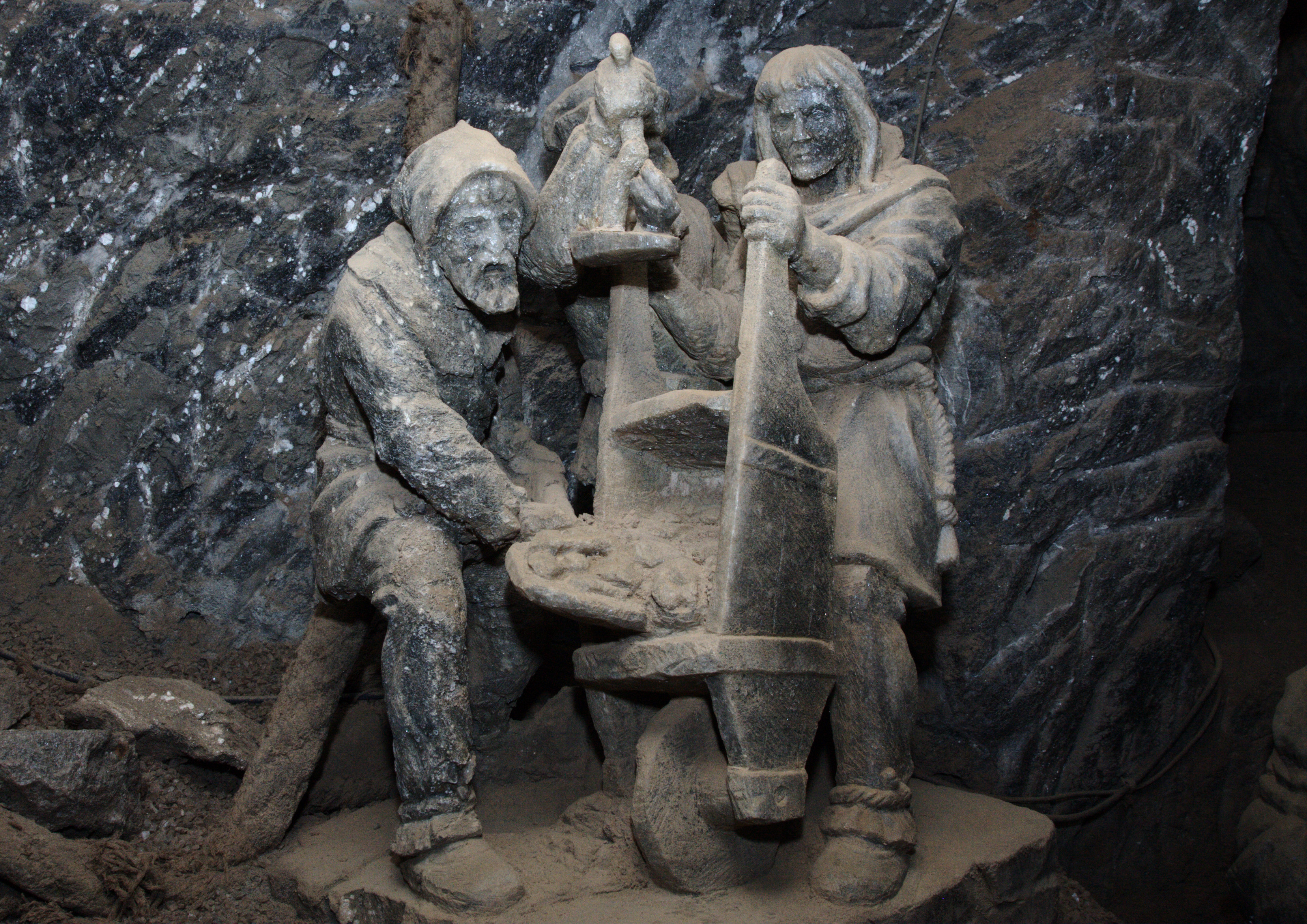 Bochnia, Salt Mine. Sculpture of miners during the work. Wikidata has entry Q4936252 with data related to this item.